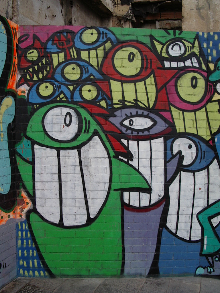 Surely one of the best cities for quality grafittiGrafitti